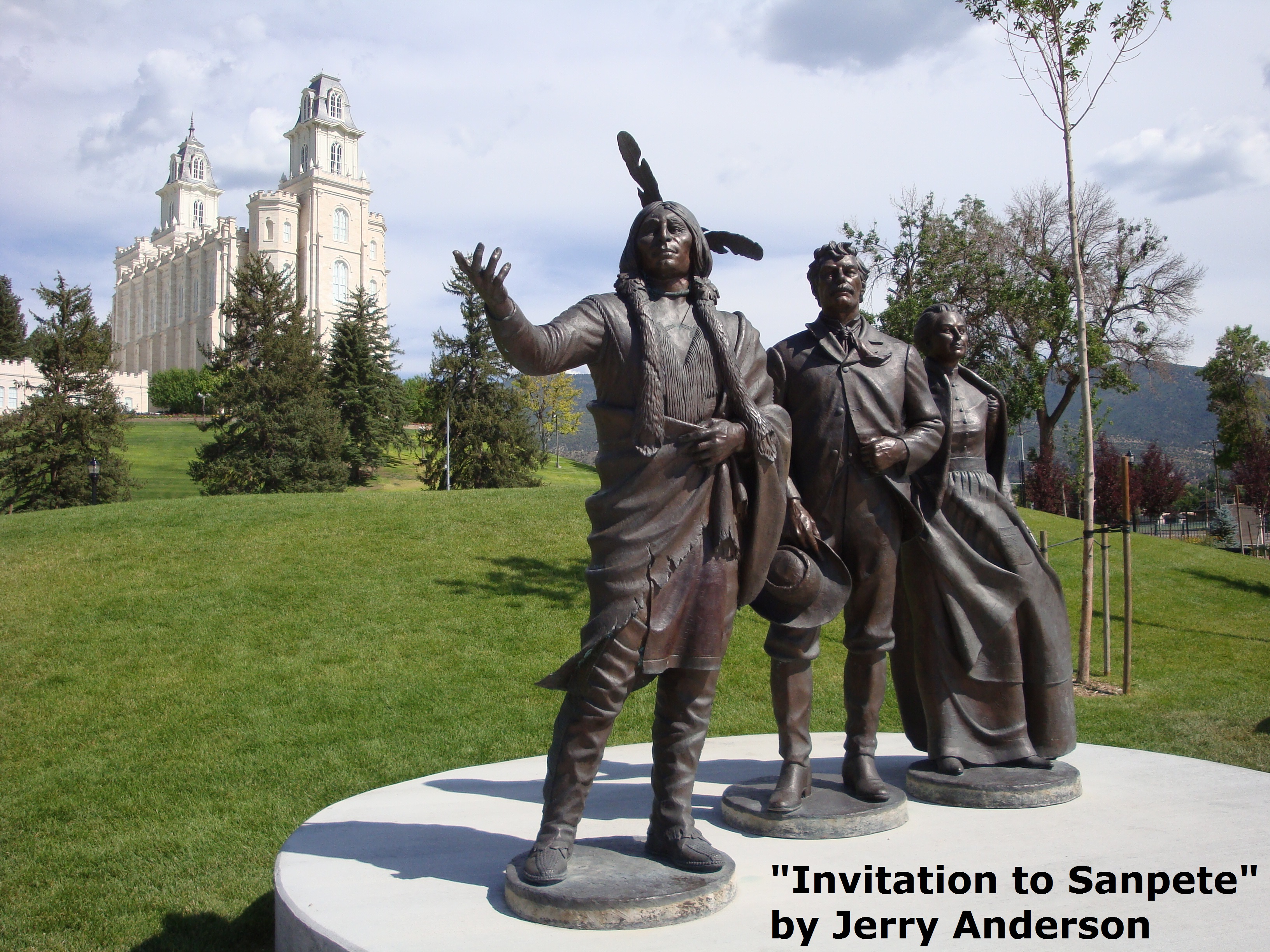 This monument is of an Indian and a pioneer couple, originally dedicated in 1997, and was moved to its current location in 2012. The Manti Utah Temple of the LDS Church is in background. The figures are not specific individuals. The purpose of the statue is to call attention to when Chief Wakara (Walker) met with Brigham Young and requested assistance in teaching his people, who were hungry subsistence farmers, to farm the land. Brigham Young agreed and sent a party of 225+ people lead by Issac Morley to settle the Sanpete Valley in November 1849.